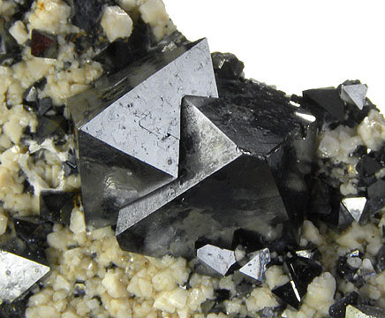 Magnetite Locality: Cerro Huañaquino, Potosí Department, Bolivia (Locality at ) Size: 8.4 x 5.2 x 3.2 cm. An excellent magnetite specimen from Cerro Huanaquino. Typically the Magnetite specimens from this locality are closely grown together, but these are rarely seen isolated octahedrons, only found in about 5% of specimens. These are also some of the finest quality crystals I've seen from this locality in a few years. The piece has fine, good size, razor sharp, lustrous, black, metallic, "Alpine-type" octahedra measuring up to 1.8 cm across, which is well above average from the locality. They are associated with several small octahedra and tiny cream colored Feldspar crystals on matrix. Virtually all of the crystals are undamaged.